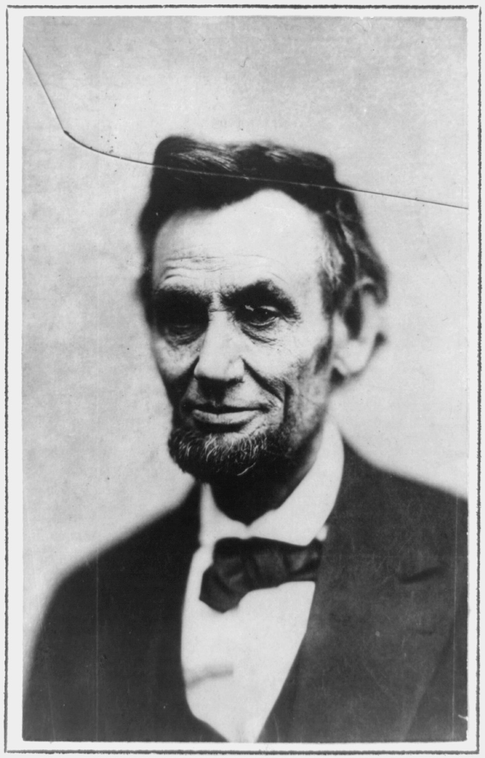 Abraham Lincoln, head-and-shoulders portrait, traditionally called "last photograph of Lincoln from life"